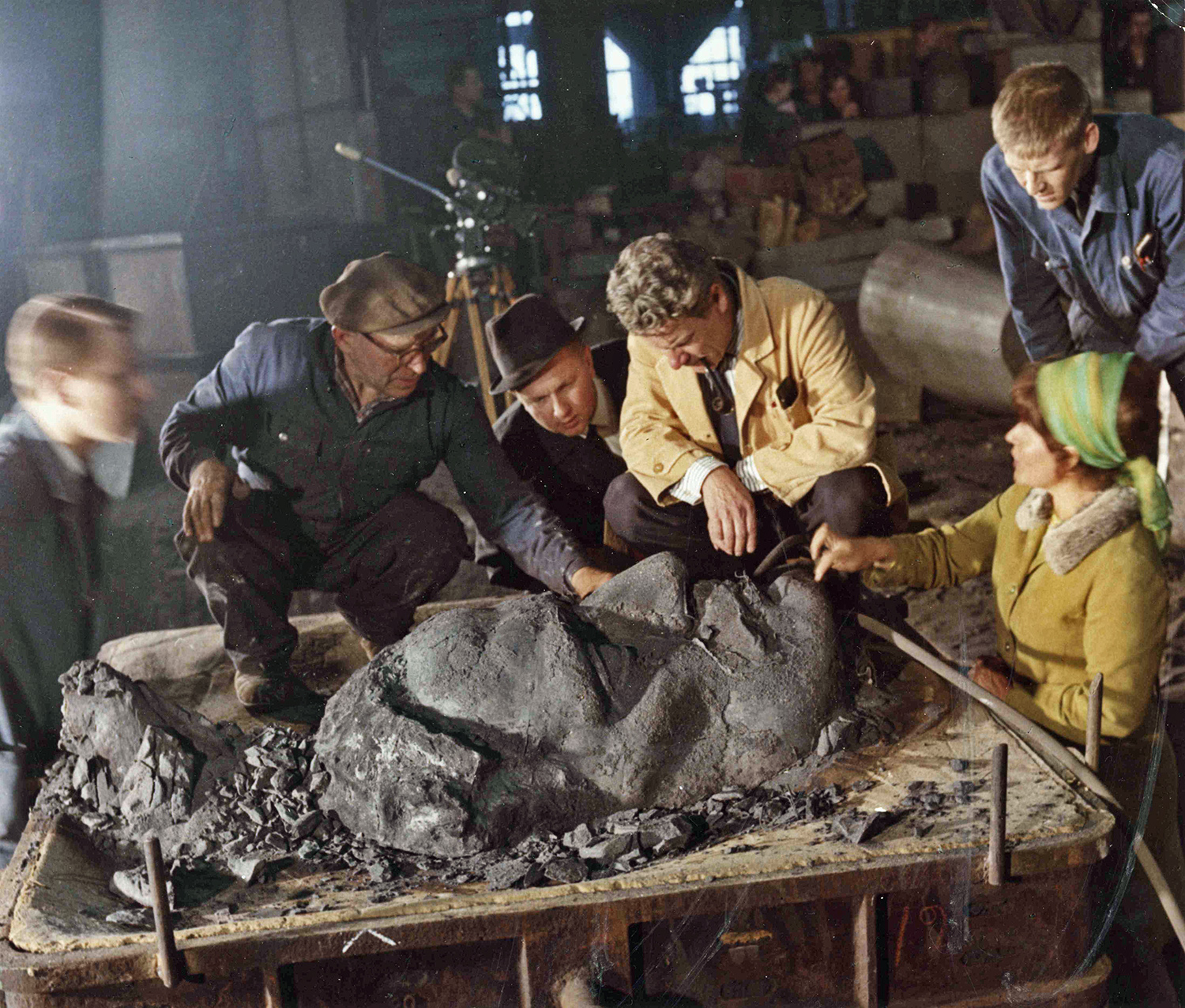 Photograph of the Finnish sculptor Eila Hiltunen creating the relief of Jean Sibelius for the monument in Helsinki.